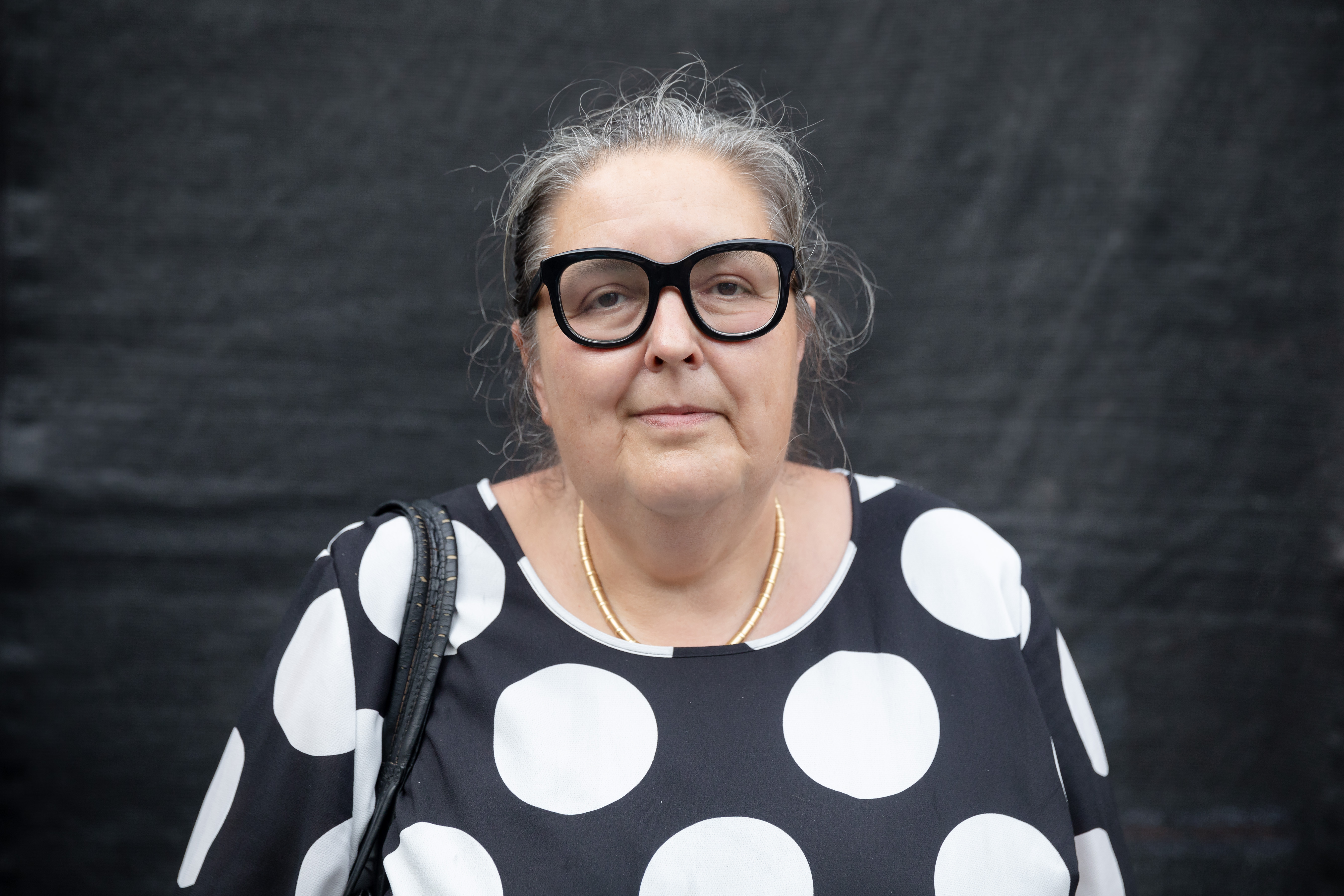 Eva Blimlinger at a protest against the governments plans for the ORF (Karlsplatz, Vienna, Austria).